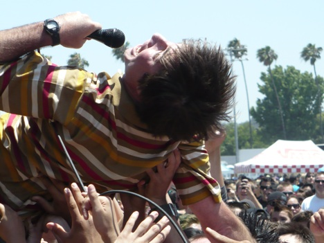 Guttermouth (singer Matt Adkins) - Live in Concert